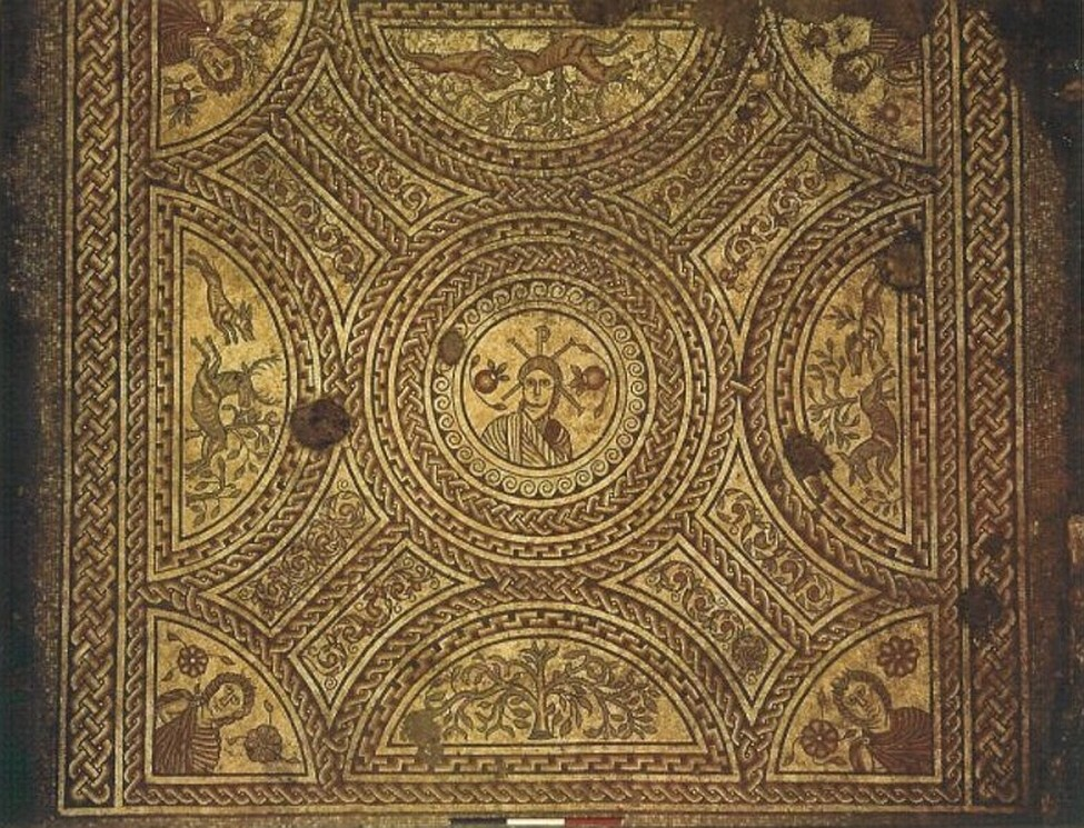 Hinton St Mary Mosaic with face of Christ in the centre, from Dorset, southern England, 4th century AD